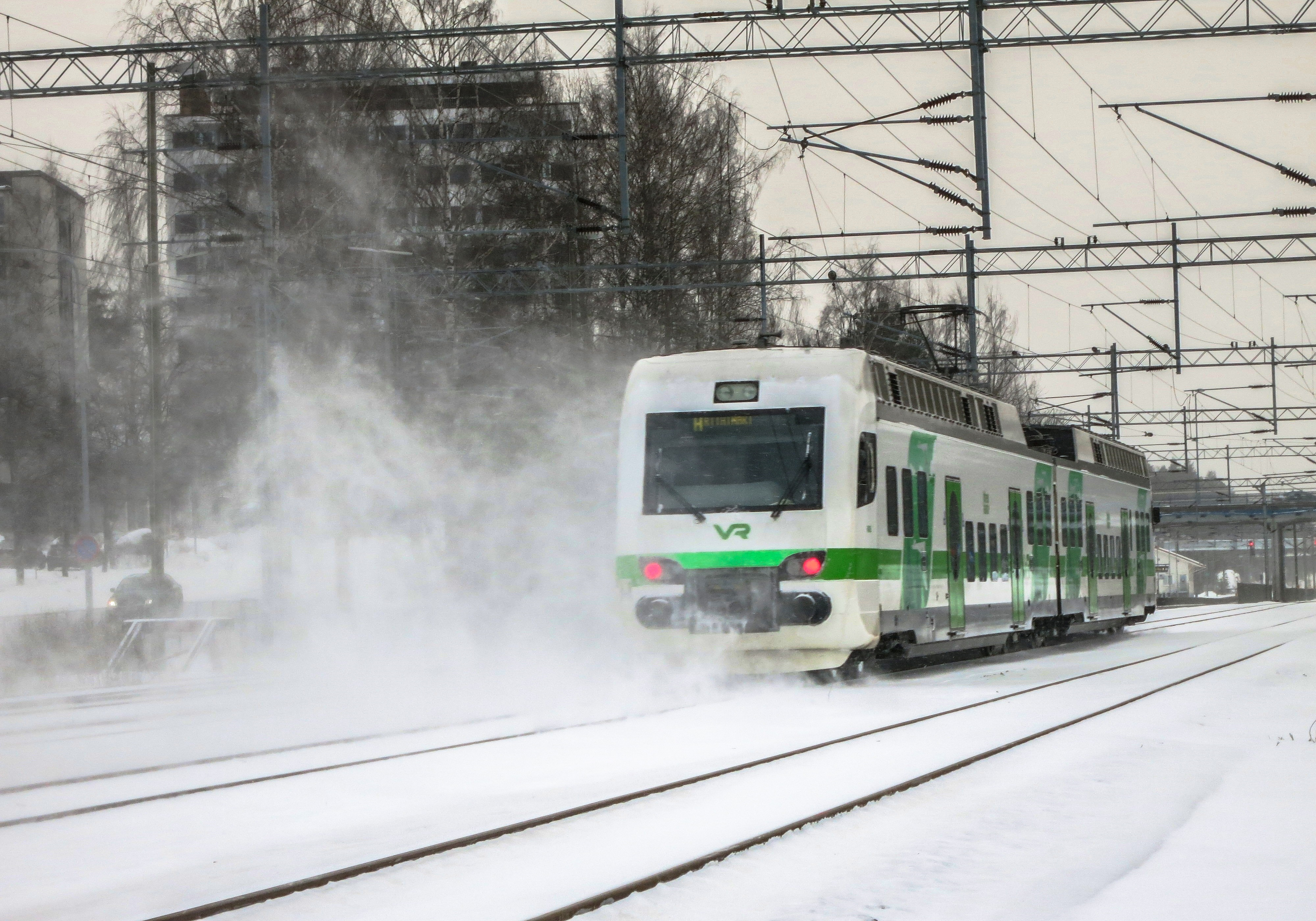 VR Group commuter train from Helsinki (13:48) to Riihimäki (14:46) approaches to Hyvinkää station at 14:36. (Uusimaa, Finland)